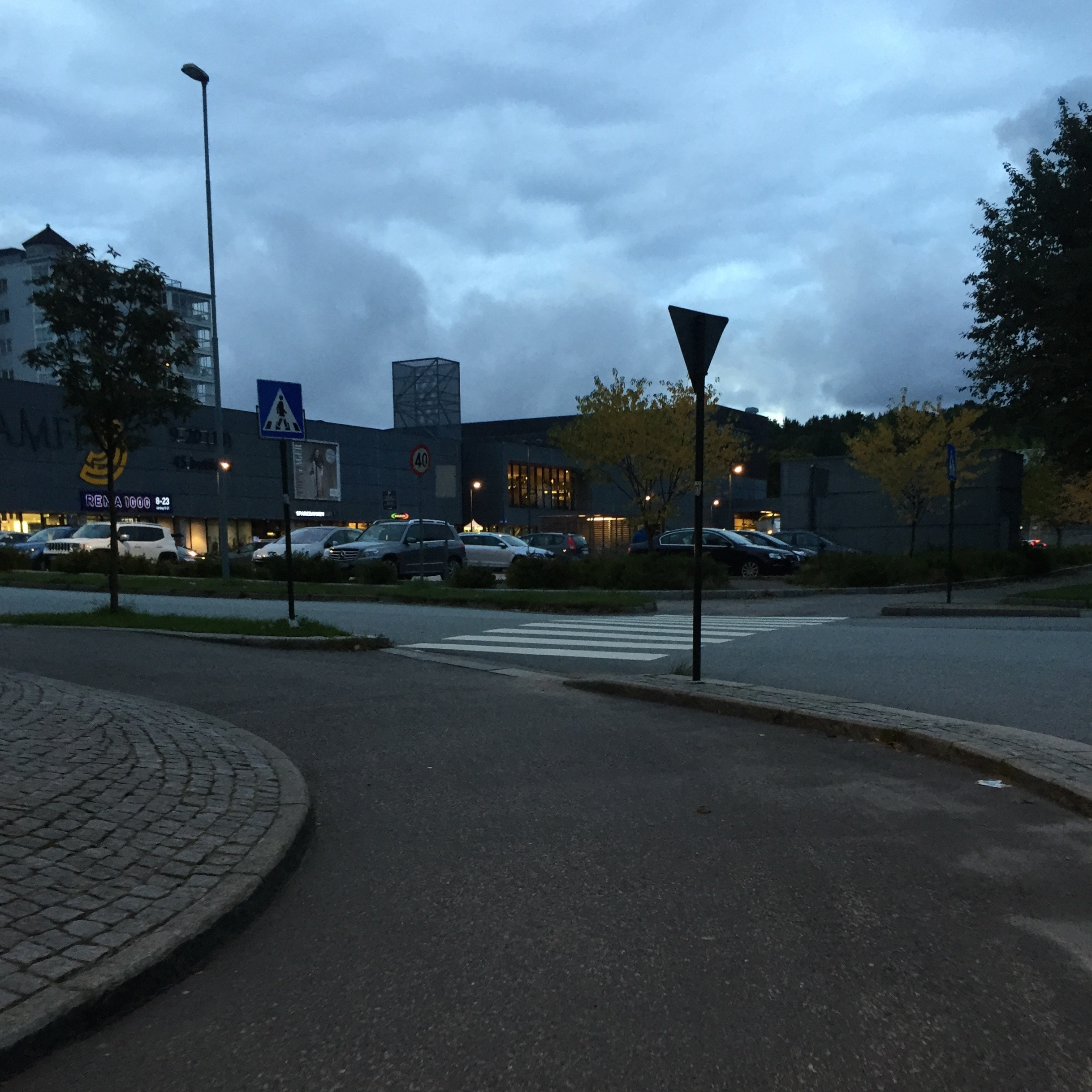 Vågsbygd centrum, Kristiansand